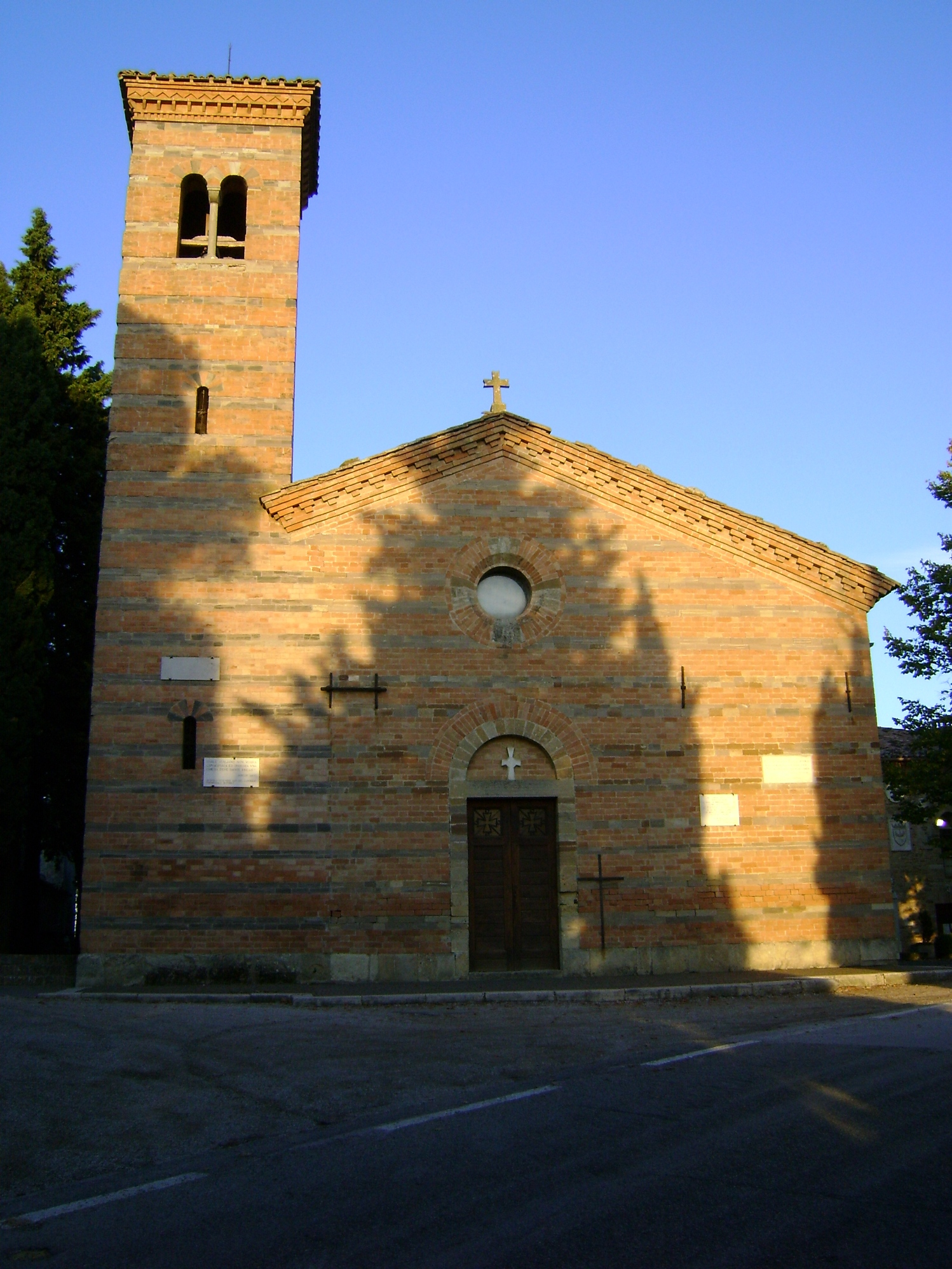 The facade of the church of San Donato in Polenta, Bertinoro, province of Forlì-Cesena, Emilia-Romagna